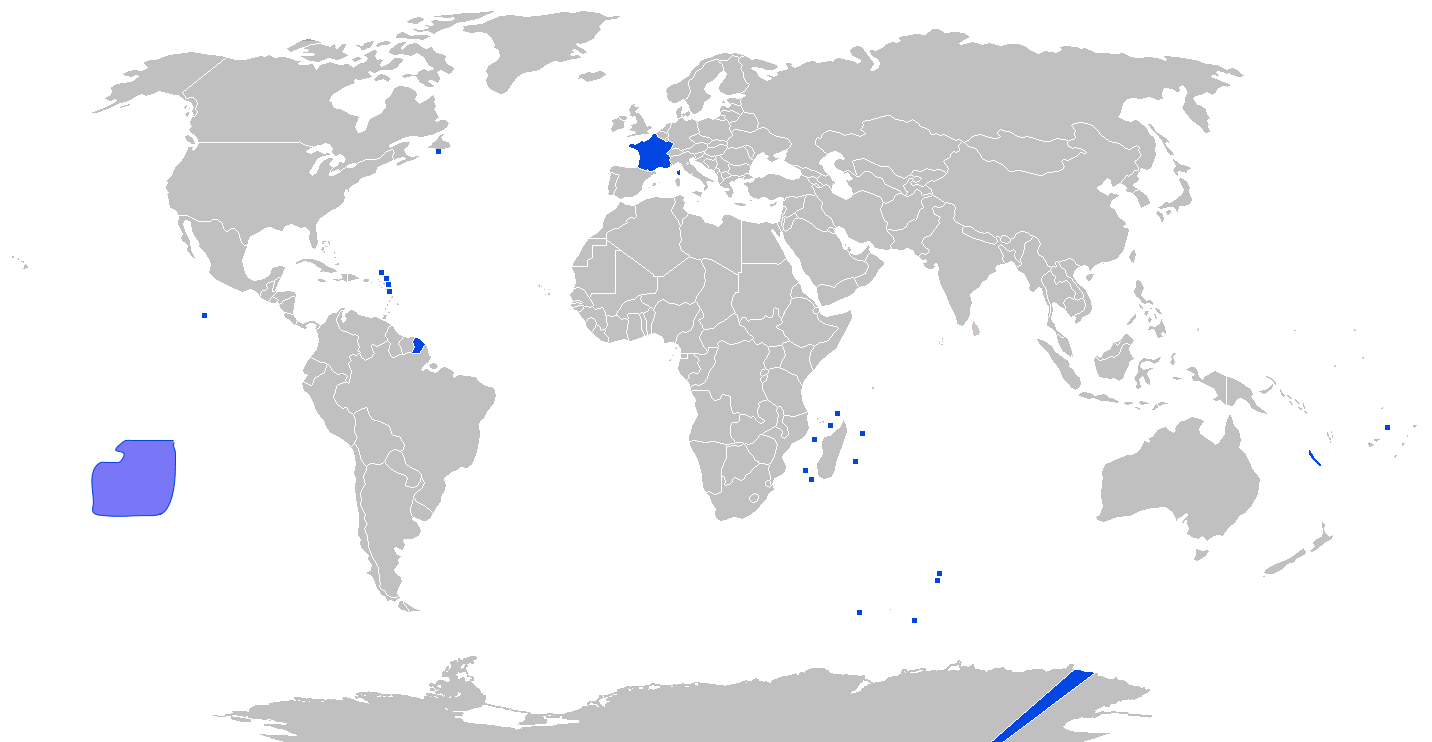 New version of Image:Outre-mer_en.png without labels. Inculdes the TAAF, Iles Eparses, Fr. Polynesia, COMs, & DOM-ROMs. Under GFDL.